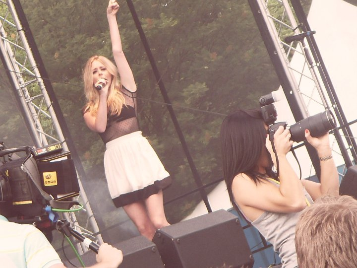 Diana Vickers performing live at Stoke 2010 Live.